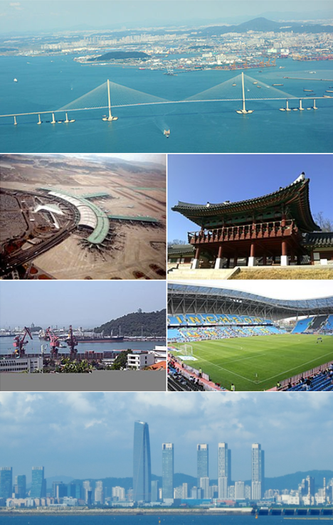 Montage of Incheon